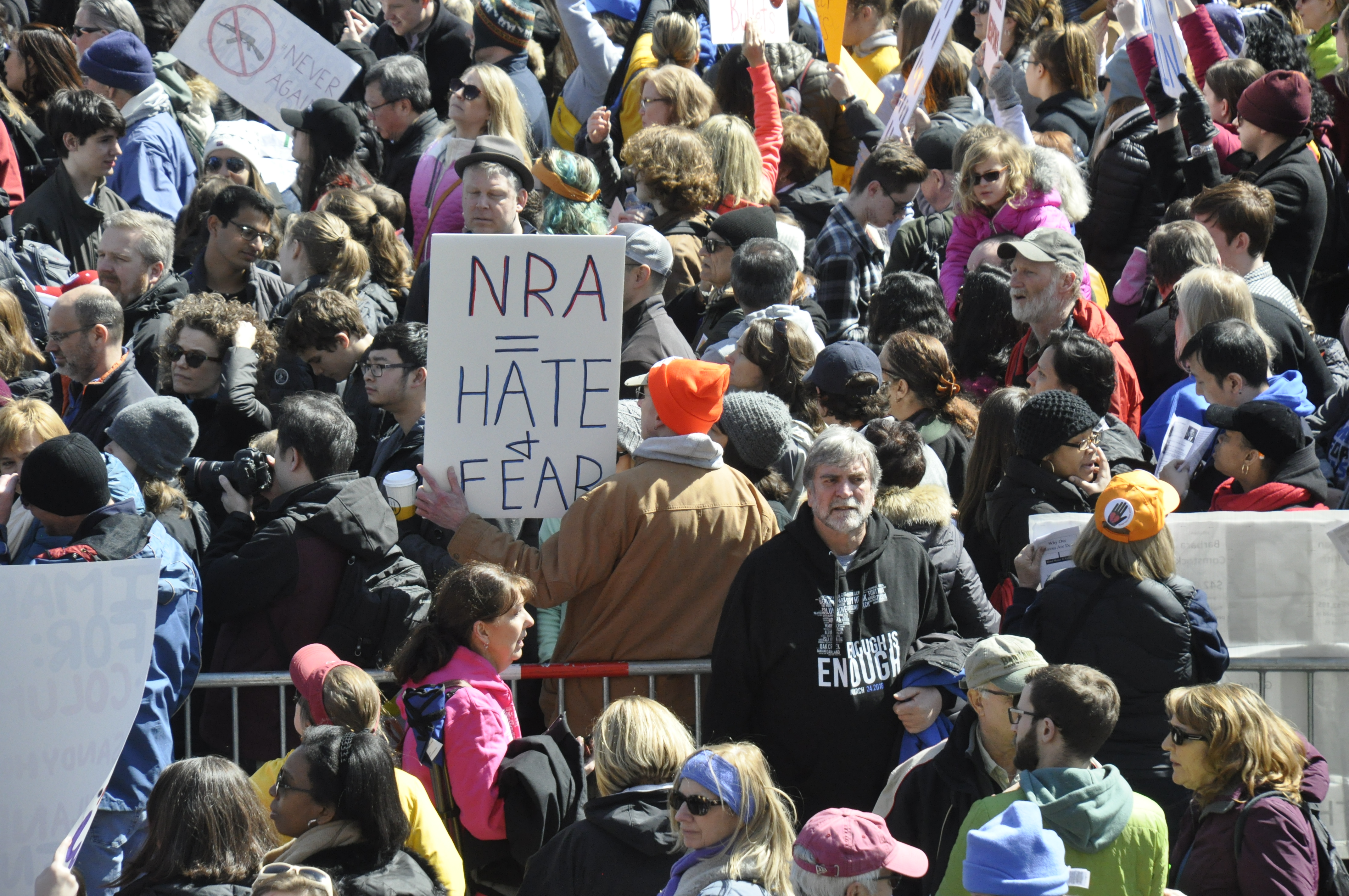 Banners and signs at March for Our Lives on 24 March 2018 in Washington, D.C.